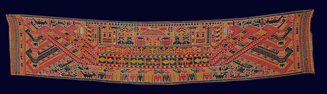 Palepai 267cm x 56cm Legendary Ships cloth from Lampung, South Sumatra from the collection of Balique Arts of Indonesia.. The ship is predominantly red with dark indigo blue on an orange/yellow tumeric background. Highlights of pale blue silk woven into the pattern and there is a significant quantity of gold ribbon appliqued to the design. From the Paminggir people, Kaliandi district. It is believed that cloths like this have not been made for over 100 years, possibly not since the tsunami of Krakatoa.